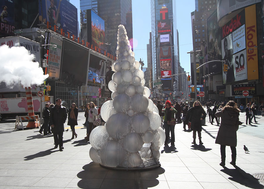 Uros House Armory Show - Times Square by Grimanesa Amoros 2011